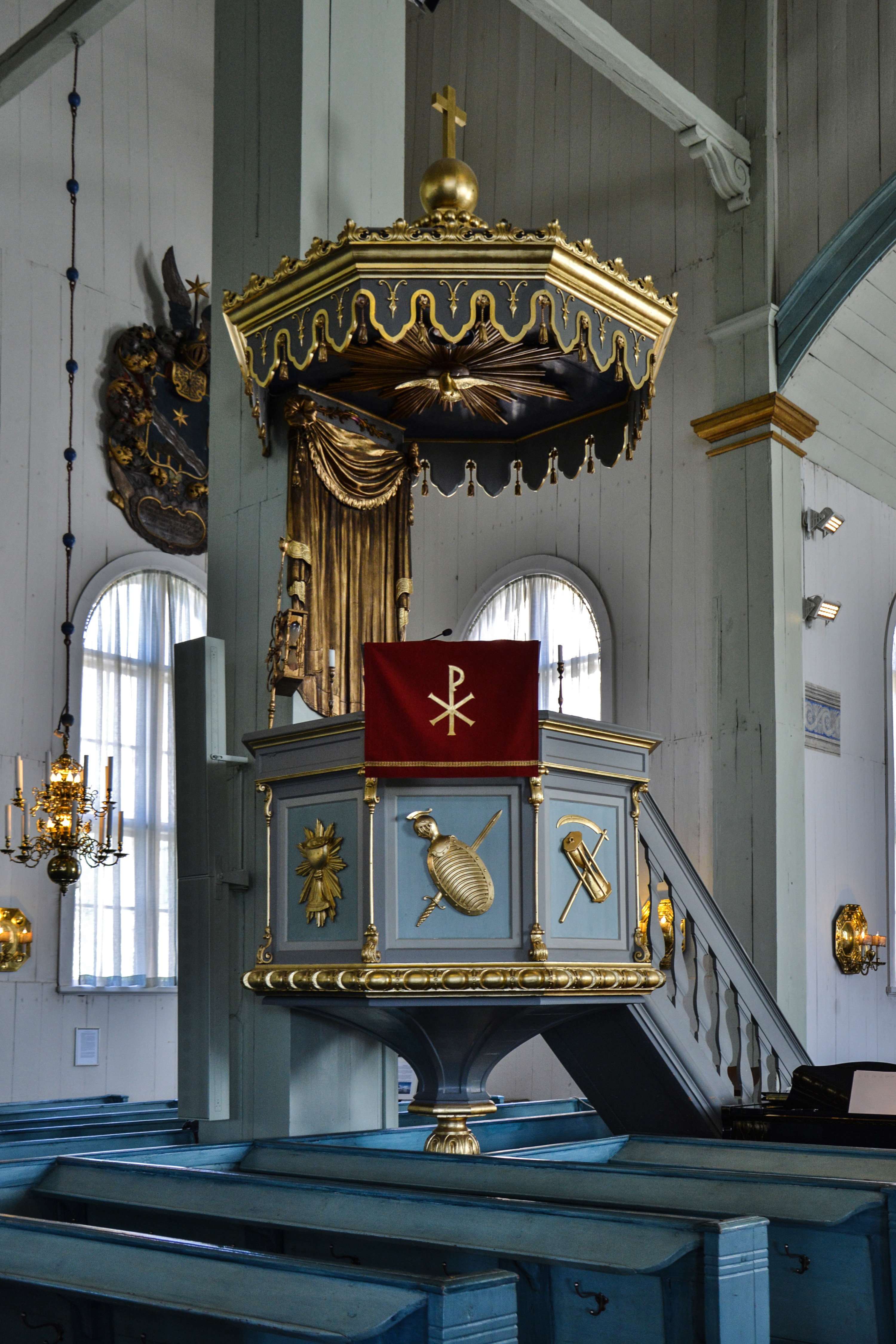 Admiralty Church,Karlskrona. The pulpit